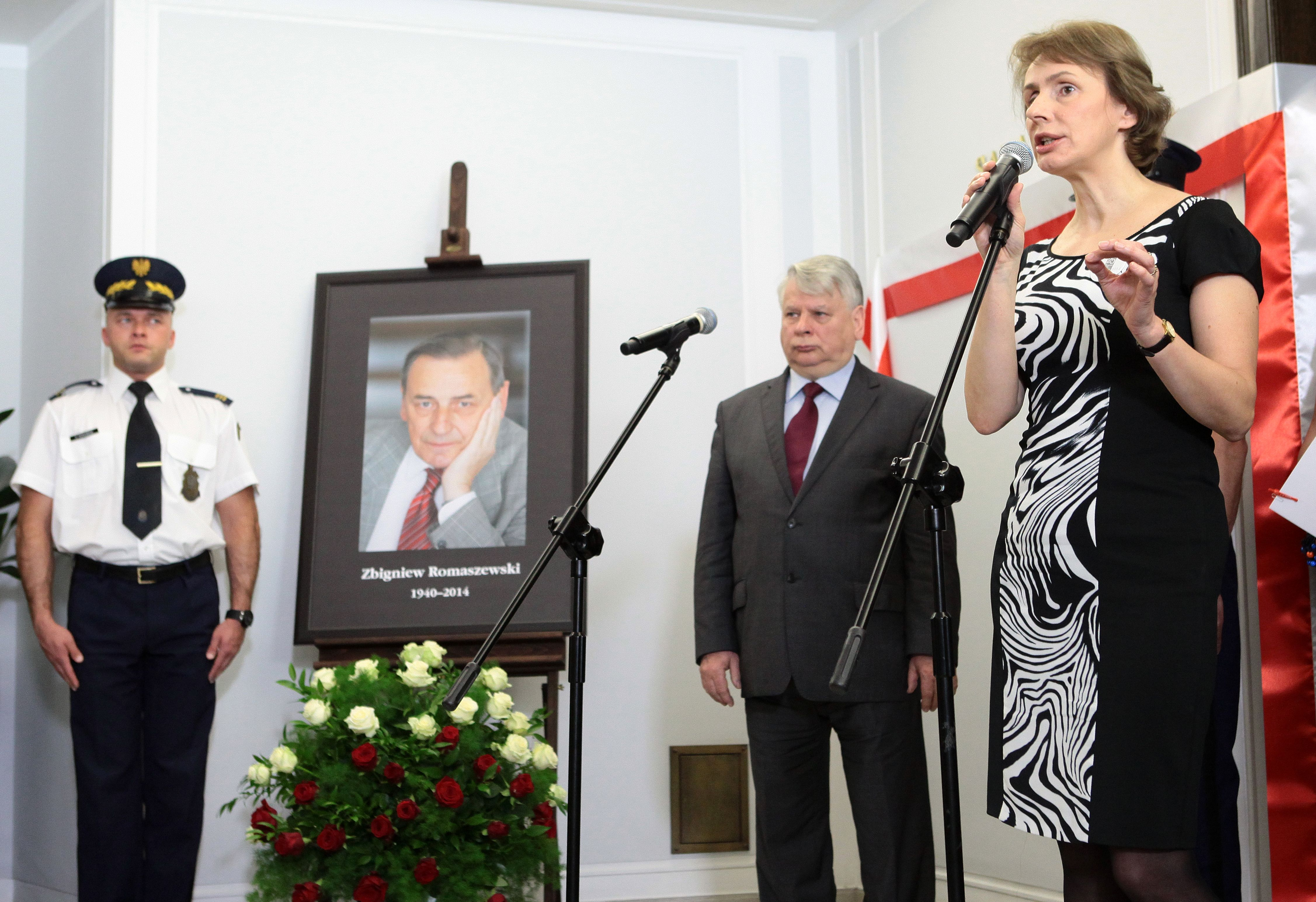 Ceremony of naming Senate's hall no 176 after Zbigniew Romaszewski